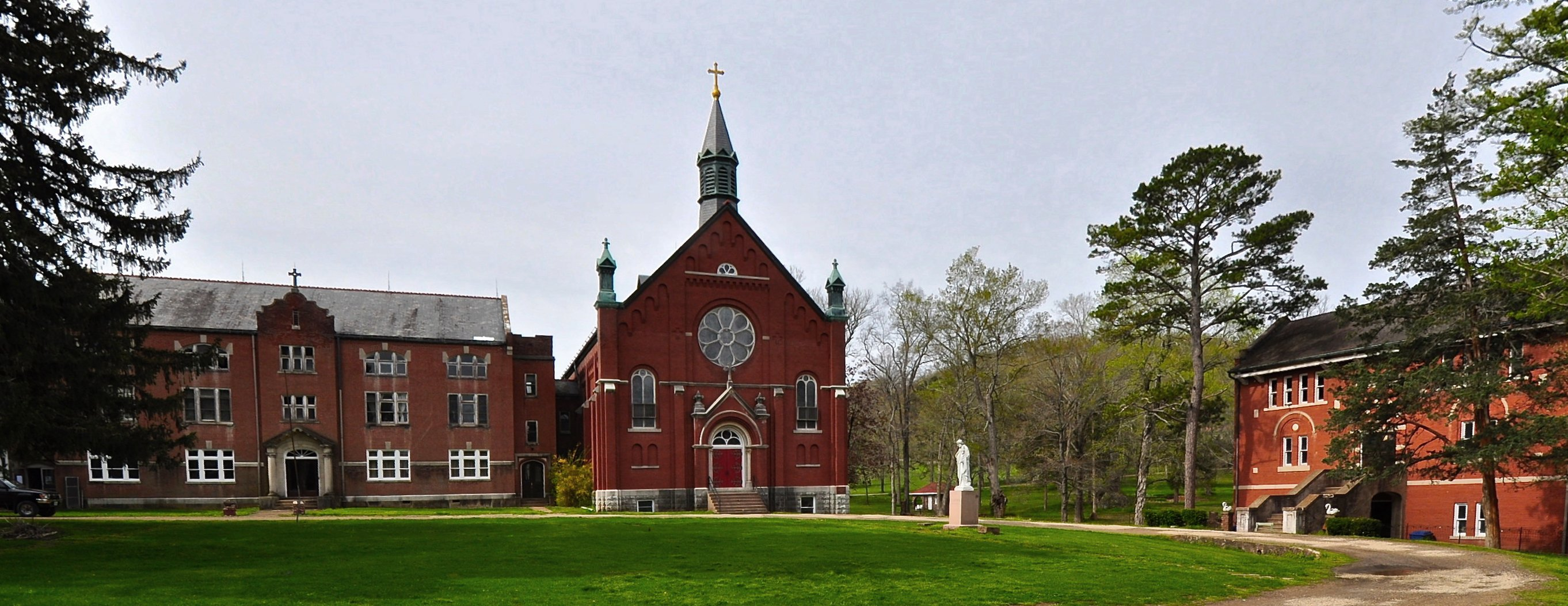 Ursuline Academy-Arcadia College Historic District, located in Arcadia, Iron County, Missouri. Listed 1 July 1998. National Register of Historic Places